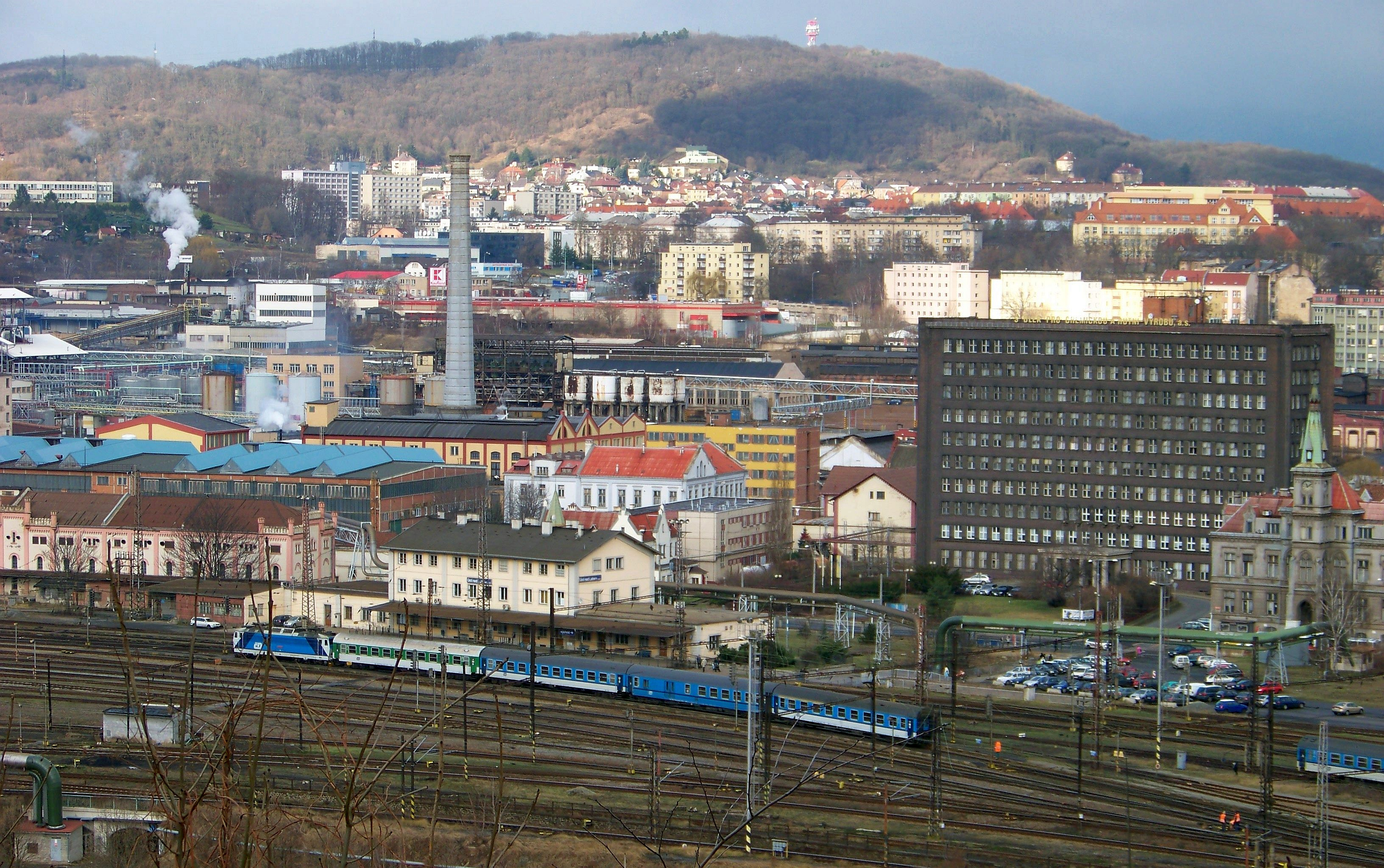 Ústí nad Labem, the Czech Republic. A view of the industry quarter from the former execution site on Větruše. - Google Maps - Google Earth